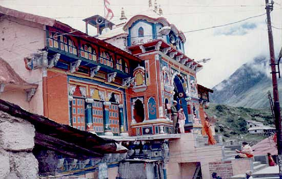 D.S. Pundir Nest in God in this Temple Слика:Badrinath.jpg Summary D.S. Pundir Nest in God in this Temple